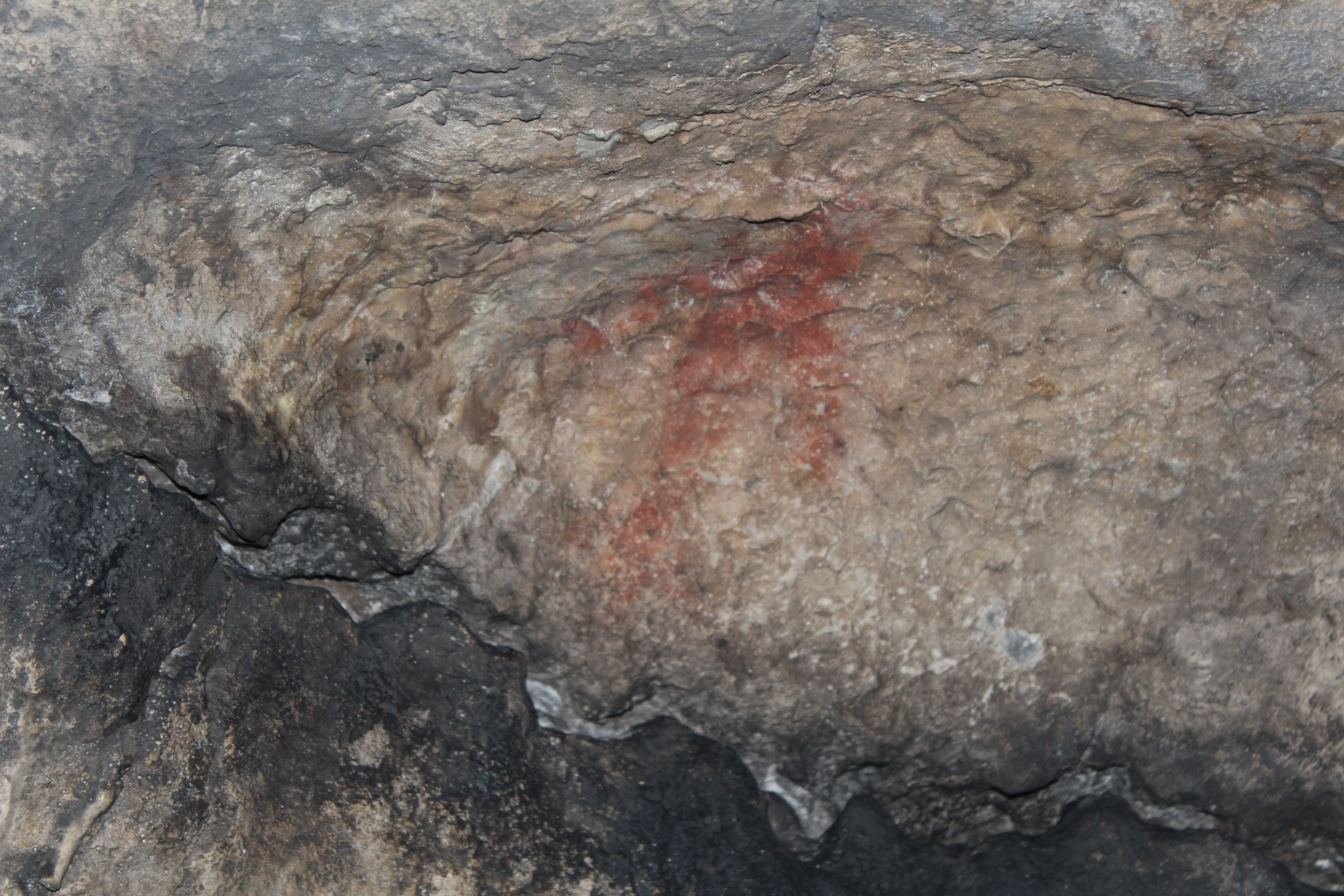 Ochre figure of a person